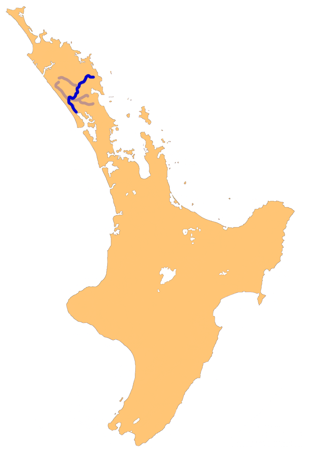 Location map of the Wairoa/Wairua River system, Northland, North Island, New Zealand